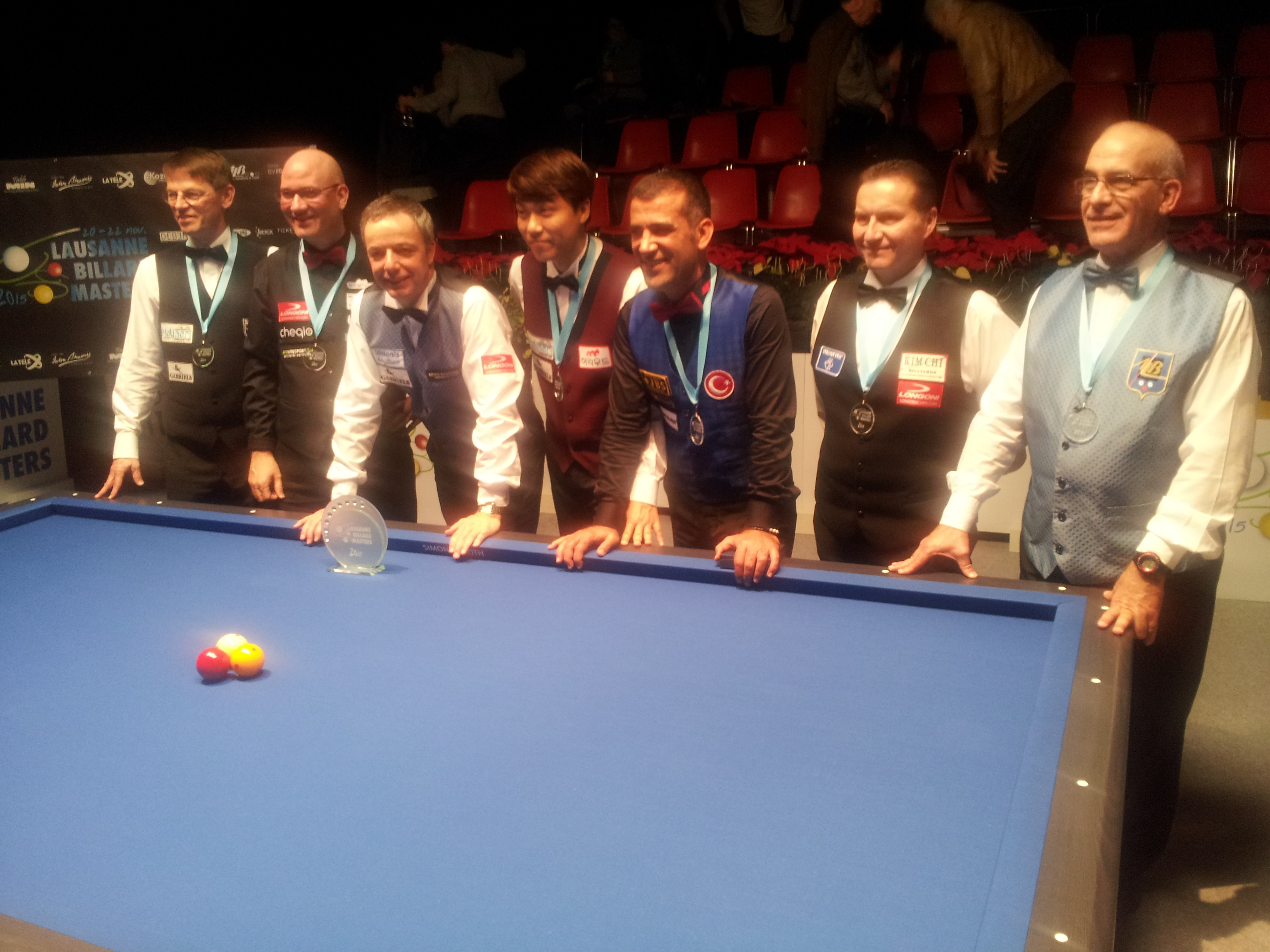 2015 Lausanne Billard Masters in Three-cushion. Venue: Casino de Montbenon, Lausanne-CHE Award Ceremony: Dick Jaspers (NDL) Martin Horn (DEU) Torbjörn Blomdahl (SWE) Choi Sung-won (KOR) Tayfun Tasdemir (TUR) Eddy Merckx (BEL) Referee (?)